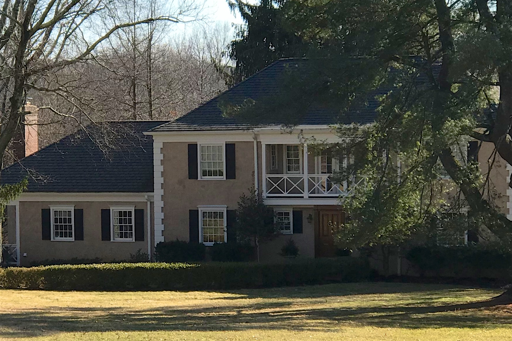 Contributing building #66 of the Washington Valley Historic District in Washington Valley, New Jersey. French Eclectic Revival architecture. Built circa 1930 date QS:P,+1930-00-00T00:00:00Z/9,P1480,Q5727902.